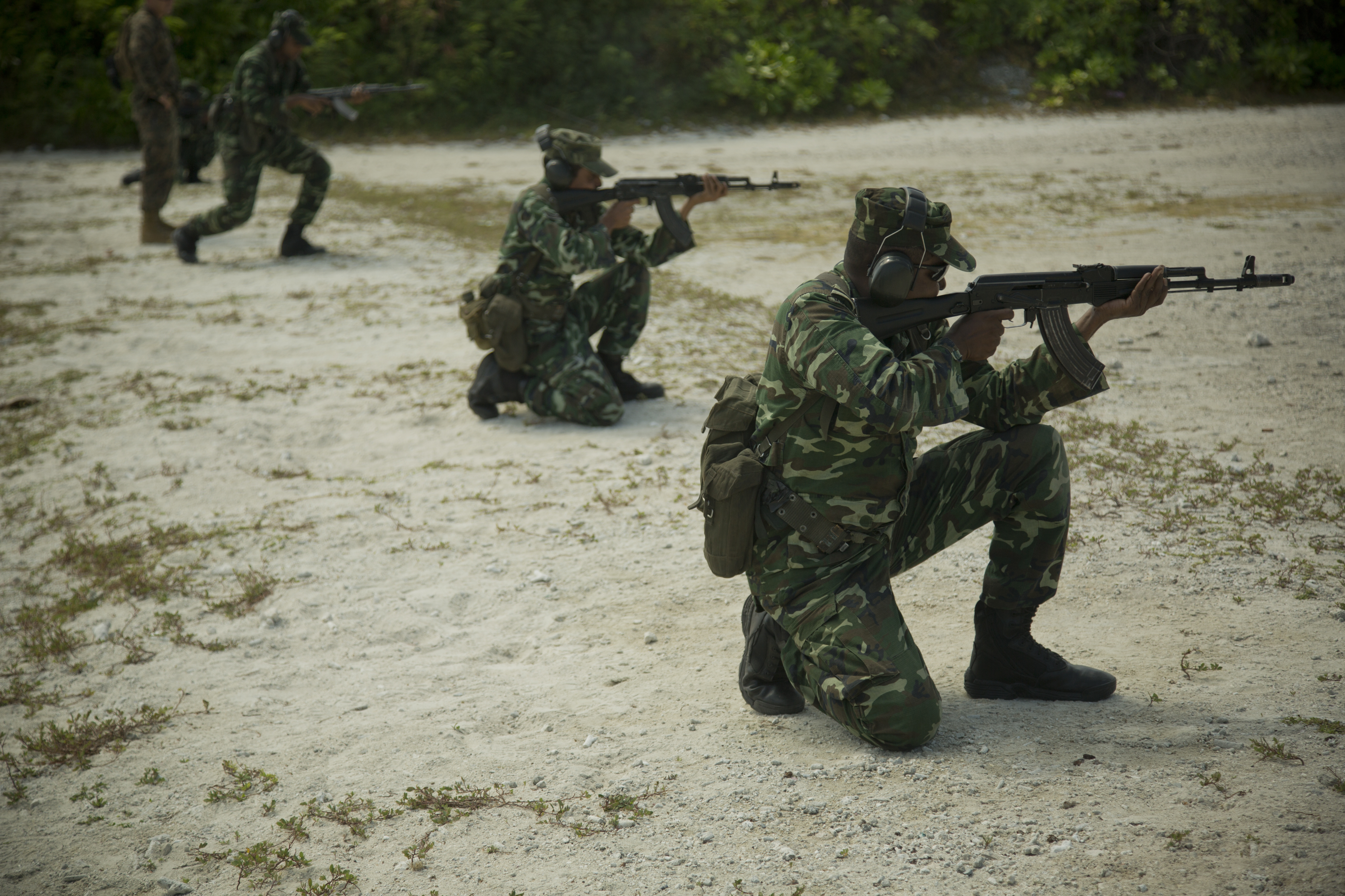 Maldives National Defense Force (MNDF) service members fire rifles during an annual rifle qualification on the island of Girifushi, Maldives, Jan. 15, 2014. U.S. Marines with Marine Corps Forces, Pacific observed the training evolution to learn MNDF tactics, techniques and procedures in preparation for an upcoming training event with Maldivian marines.